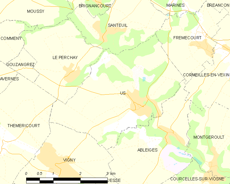 Map of French municipality Us